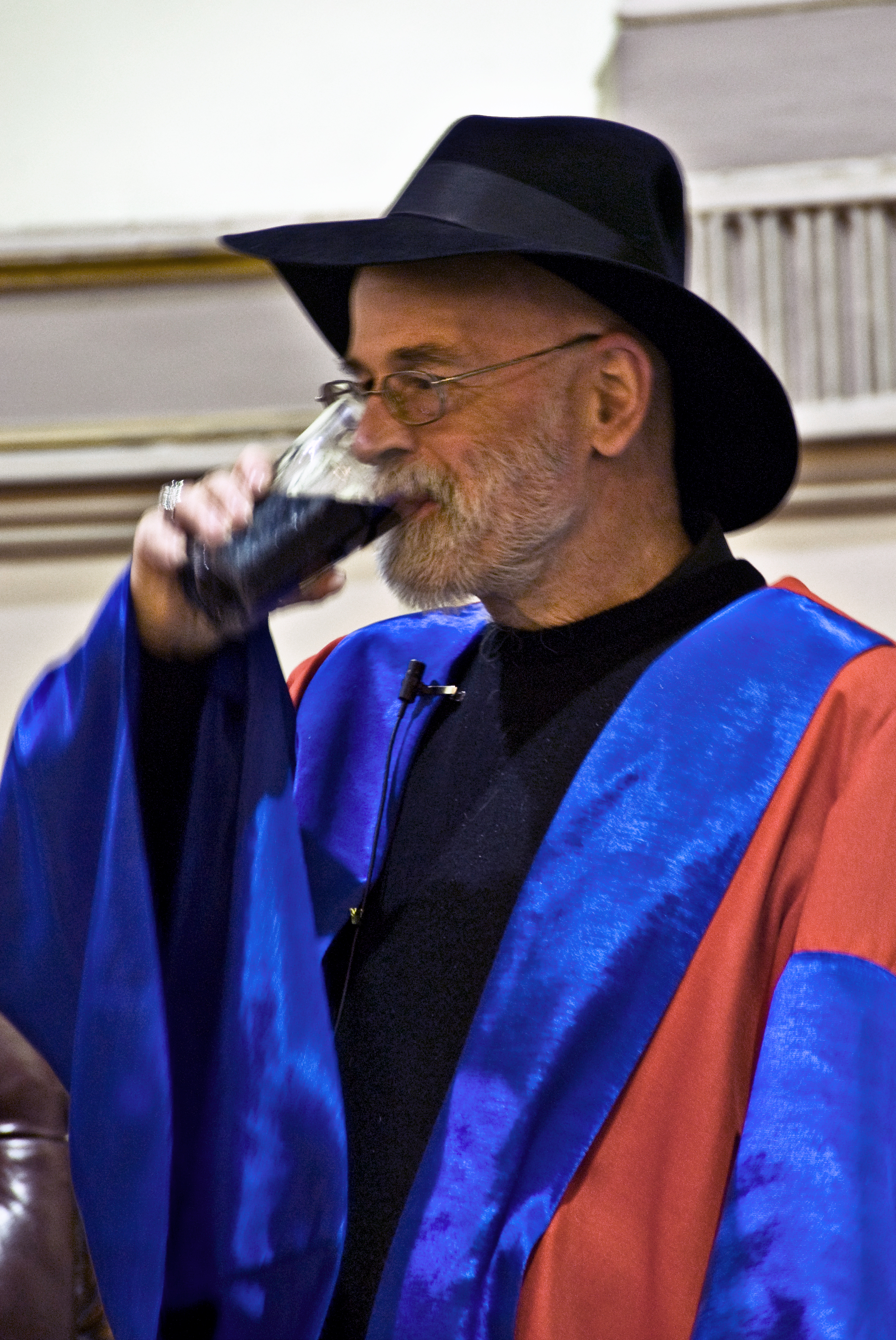 Terry Pratchett enjoying a Guinness at honorary degree ceremony at Trinity College Dublin.